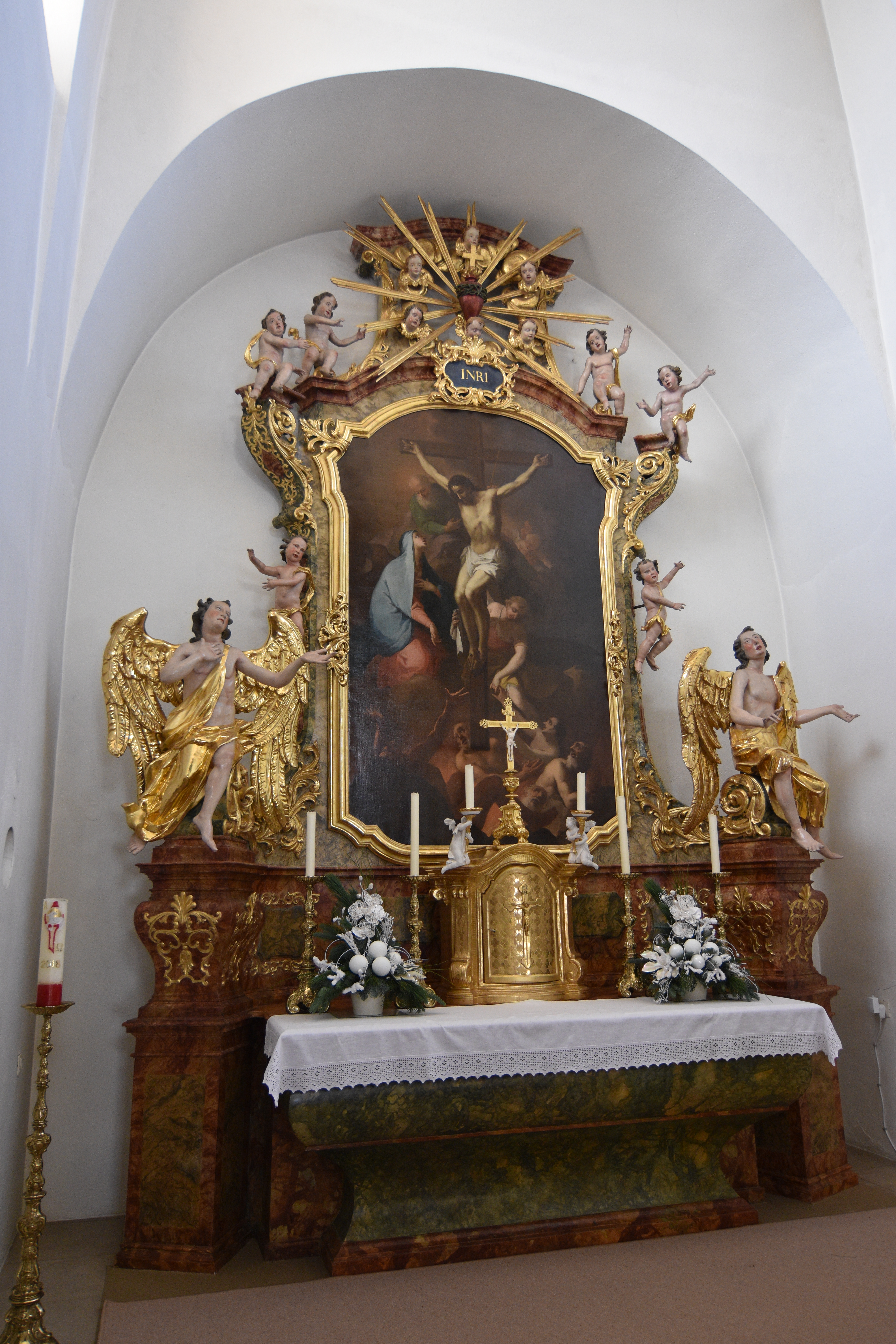 Church Filialkirche Markt Allhau - Interior